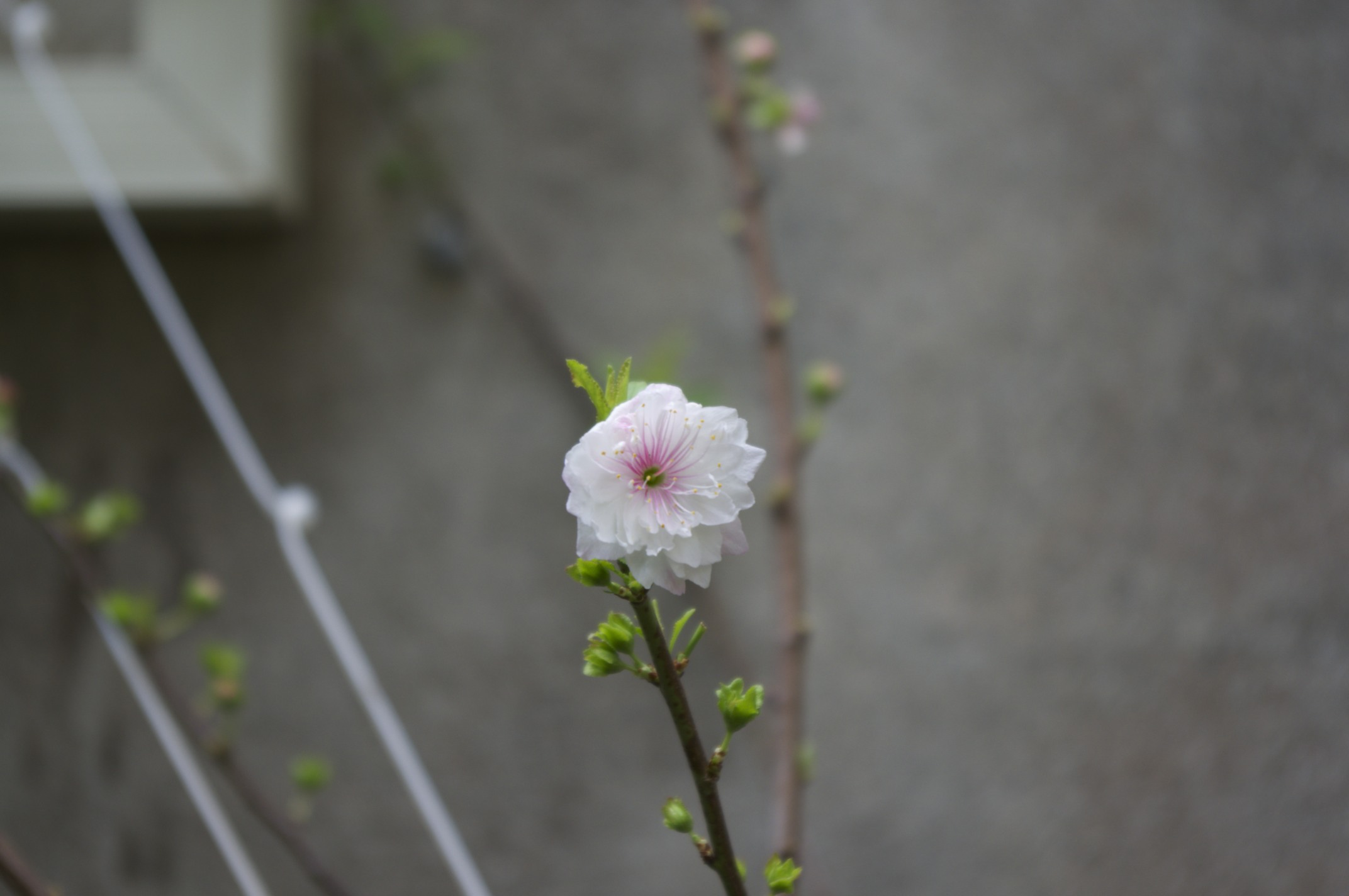 A blossom of Prunus japonica. As known as 'Bush cherry', it is a shrub kind of Prunus which features of the white blossoms. This is planted in the garden of 'Huweicuo Salon' （虎尾厝沙龍）, the bookstore/café/salon at Huwei township.